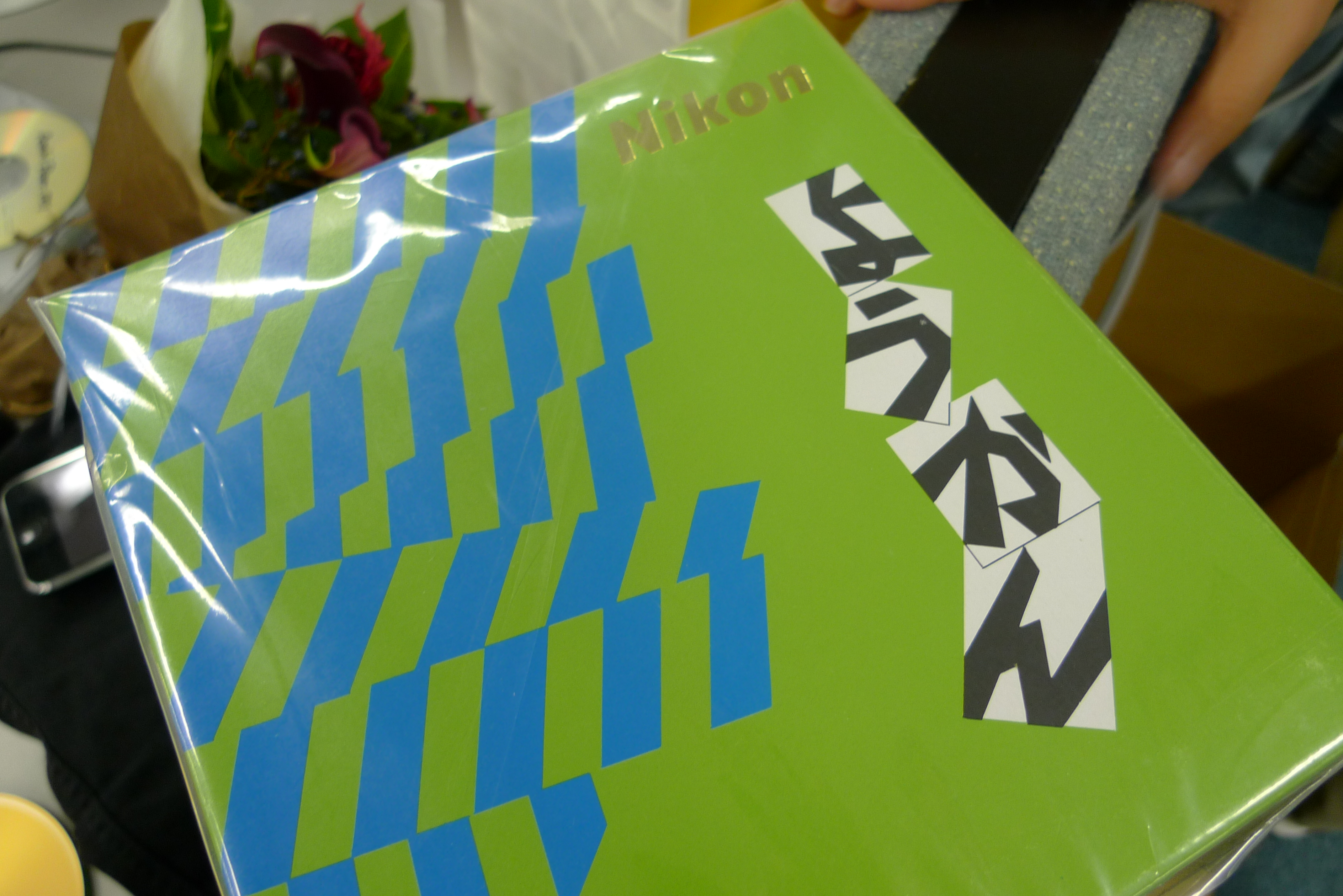 A package of Nikon yōkan Type-D set (ニコンようかん Dセット 本煉・小倉・胡麻), Japanese yōkan dessert designed and marketed by Nikon Corporation. See NikonDirect